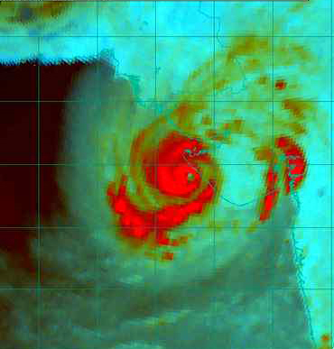 03BNONAME prior to landfall. From